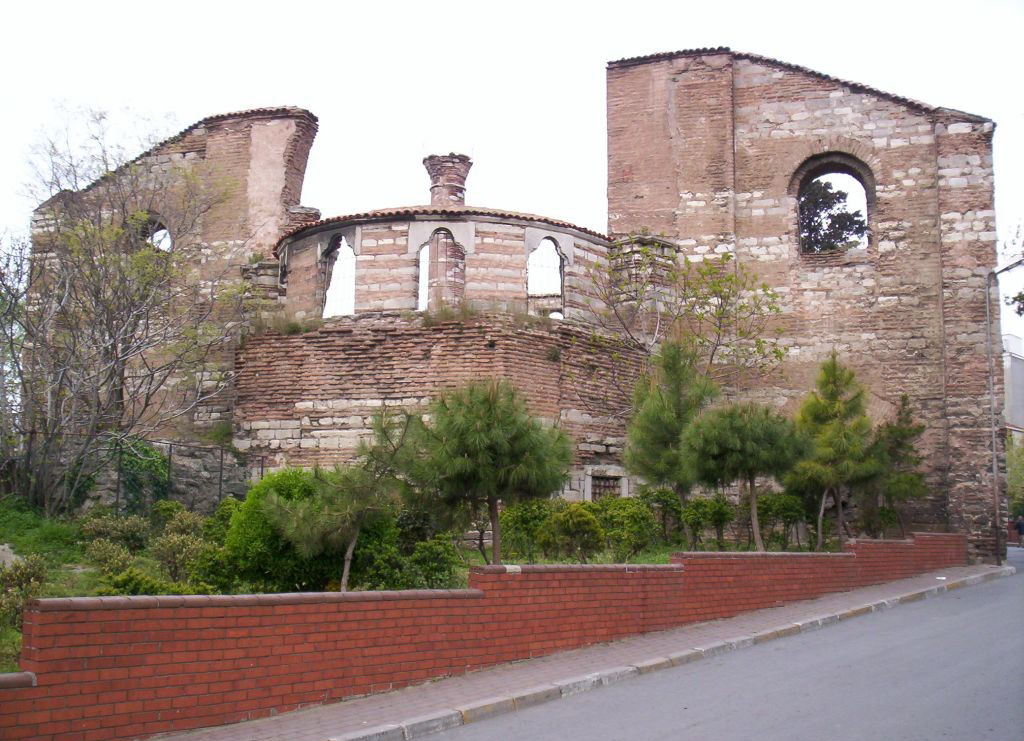 St. John Stoudios (Imrahor) Monastery, built in 462 AD, is one of the oldest surviving Byzantine churches in Istanbul (Constantinople).